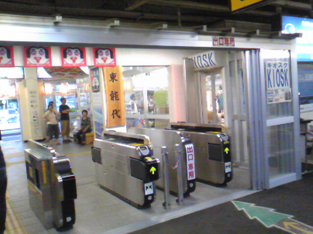 Turnstiles at Higashi-Noshiro Station, Akita prefecture, Japan. It is photographed in August 2012.